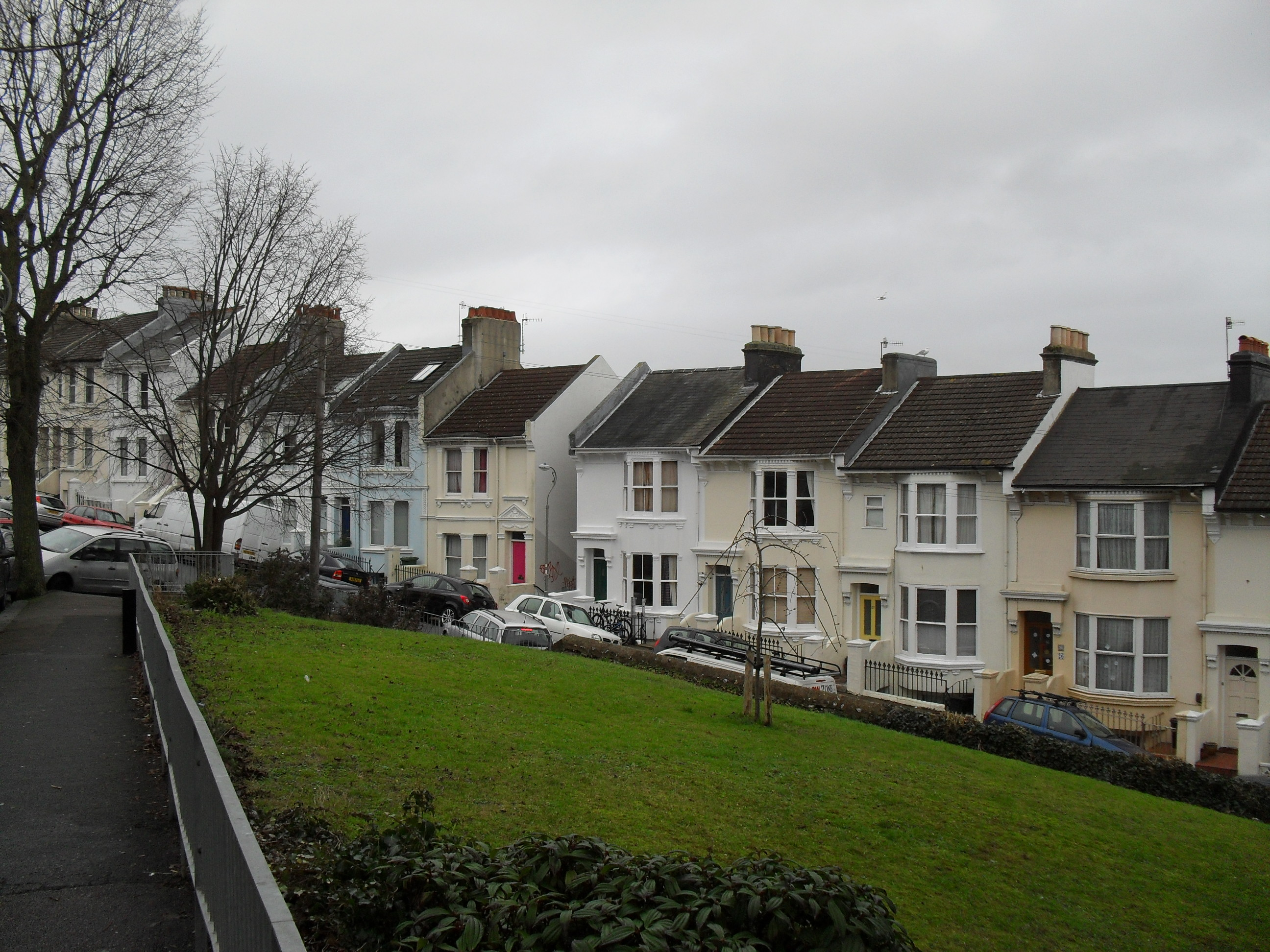 Terraced houses of the 1880s at Richmond Road, Round Hill, City of Brighton and Hove, England. The very narrow gap between two houses in the middle of the picture is the upper entrance to the "cat's-creep"—a long, steep staircase leading down the hillside to Roundhill Crescent.